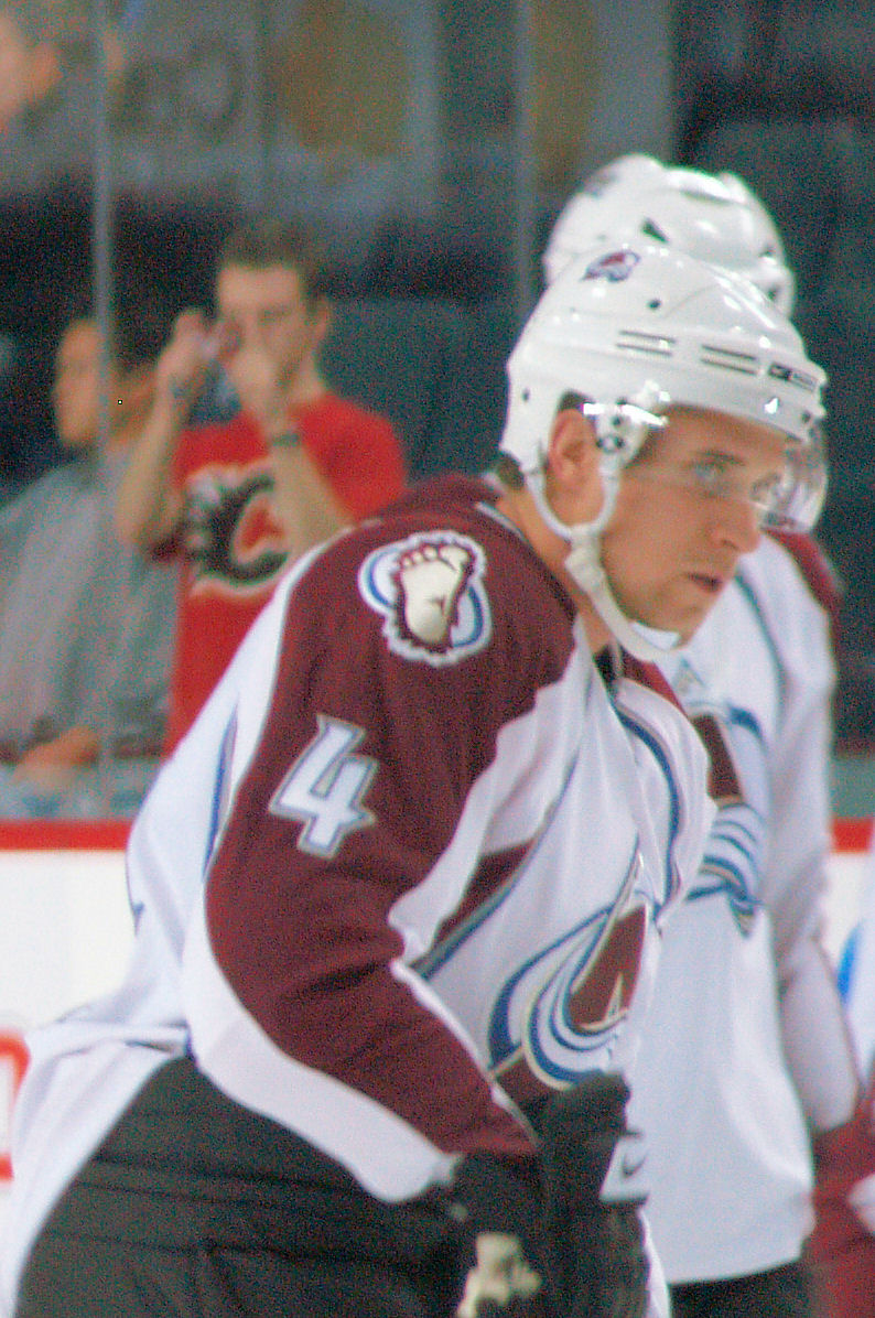 John-Michael_Liles warming up before a game in Calgary, Alberta